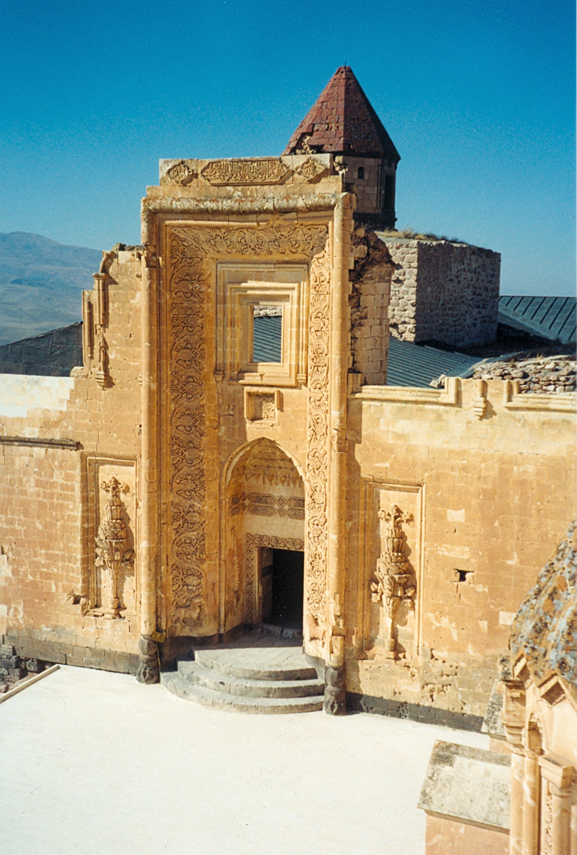 Inner court, İshak Paşa Sarayı, near Doğubeyazıt, Turkey.